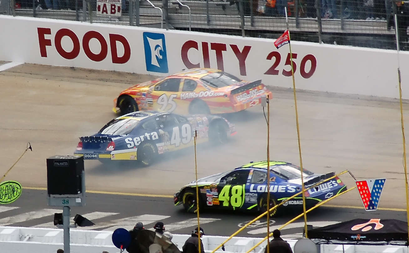 racing at the spring NASCAR race at Bristol, #49 Brent Sherman #48 Jimmie Johnson #95 Stanton Barrett